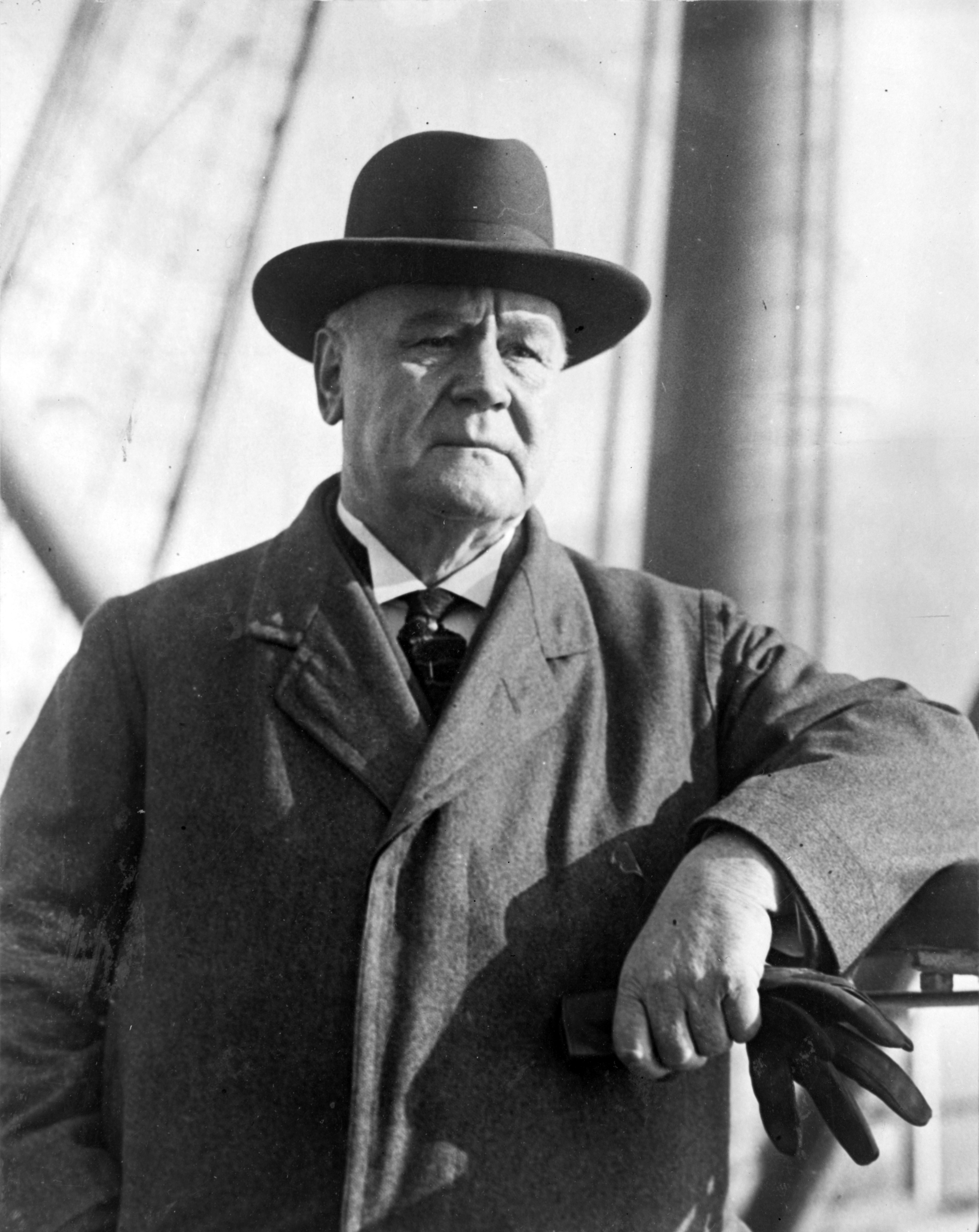 Dr. Wilhelm Heinrich Solf, half-length portrait, leaning on railing of ship